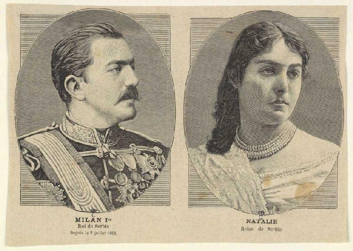 Milan I of Serbia and Natalie of Serbia